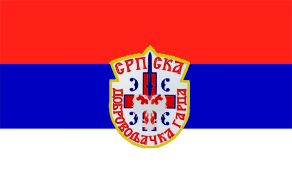 Flag of the Serbian Volunteer Guard (Arkan's Tigers)